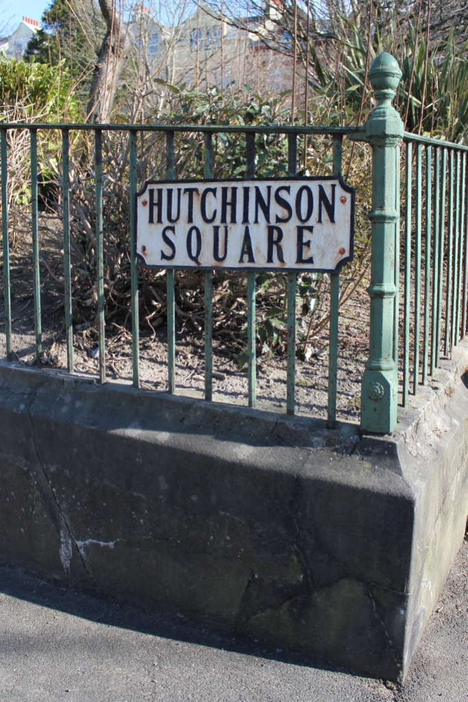 Hutchinson Square, Douglas, Isle of Man - the site of Hutchinson Internment Camp during World War II